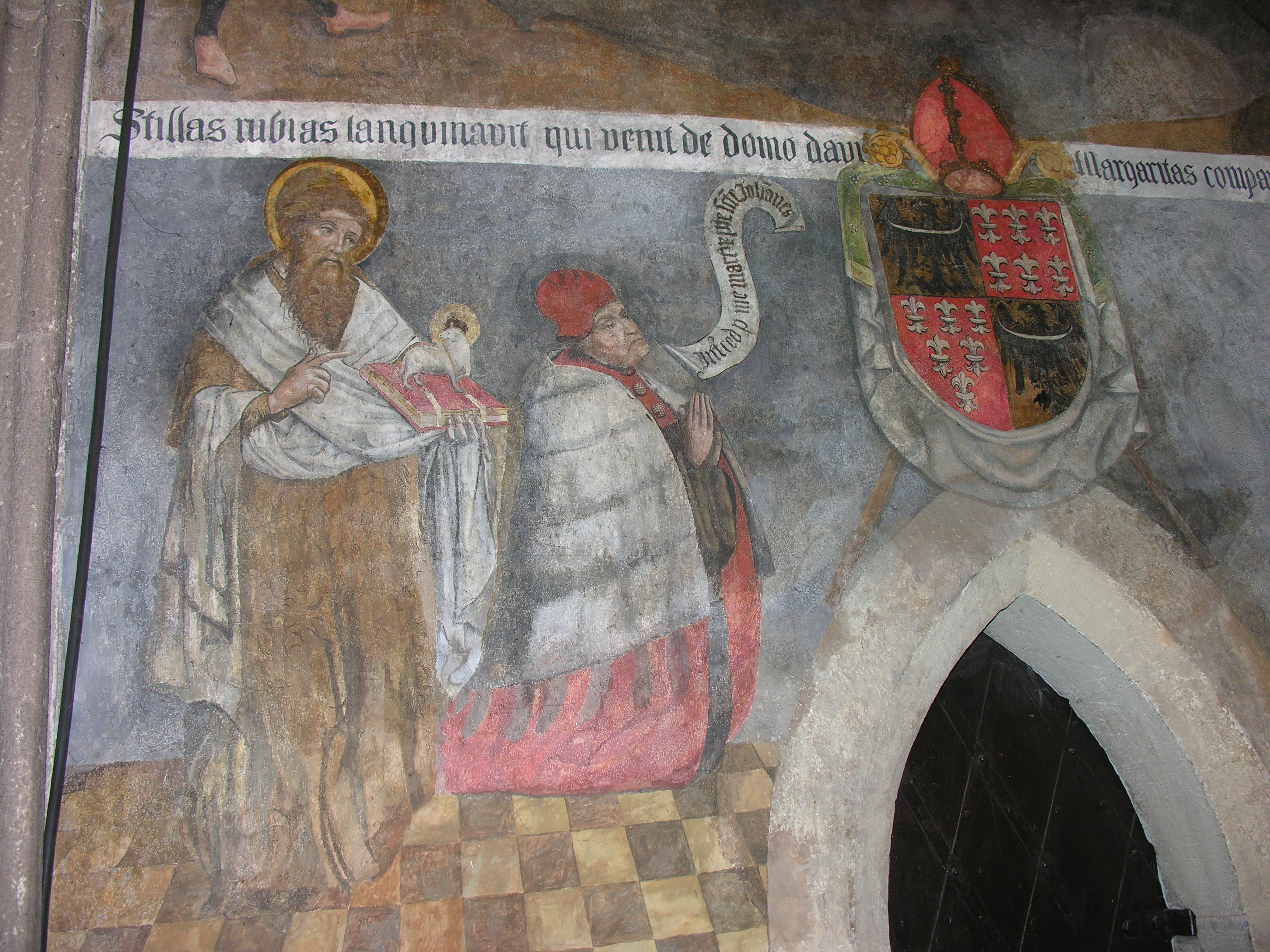 Biskup Jan Roth. Malowidło w katedrze wrocławskiej